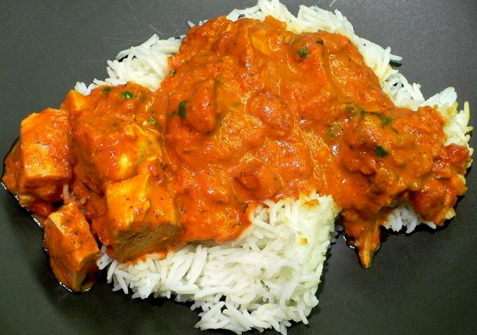 Chicken Tikka Massala served with rice.